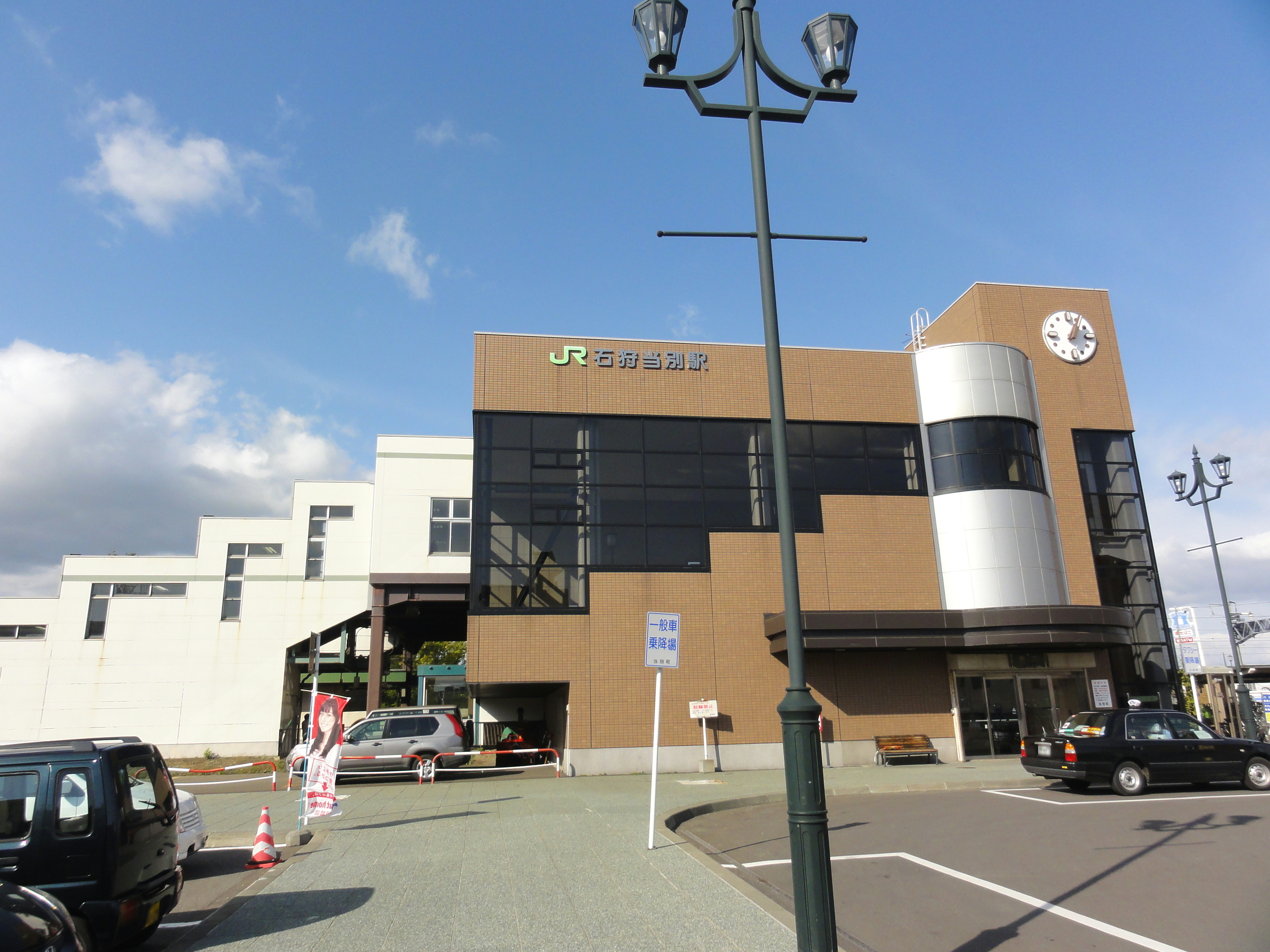 South entrance of Ishikari-Tōbetsu Station on the Sasshō Line in Tōbetsu, Hokkaido, Japan